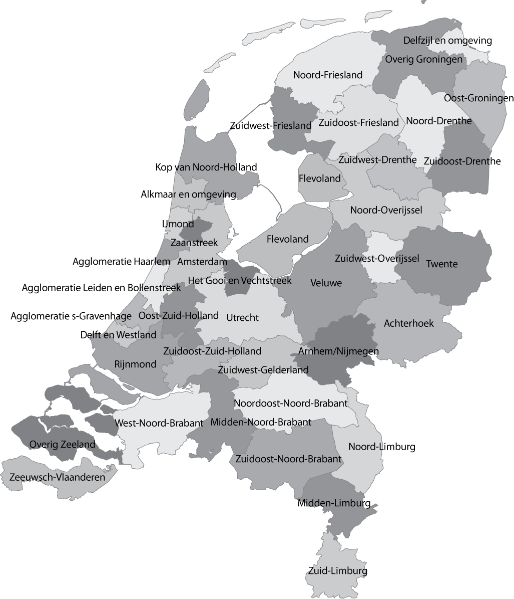 Map of the Dutch NUTS3 regions (COROP regions). Made using GIS software.